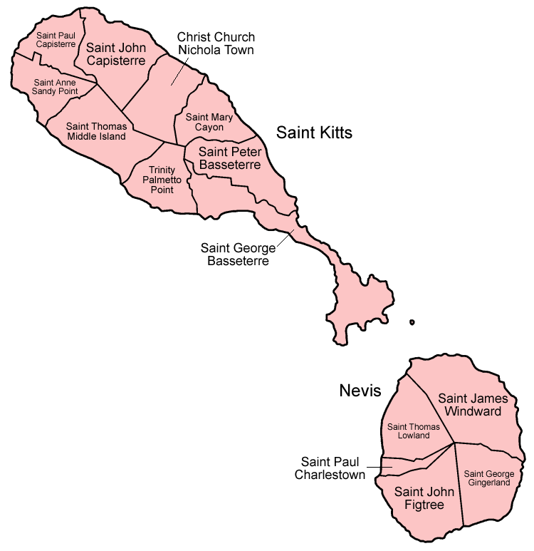 Map of the parishes of Saint Kitts and Nevis in English (local language). Made by User:Golbez.